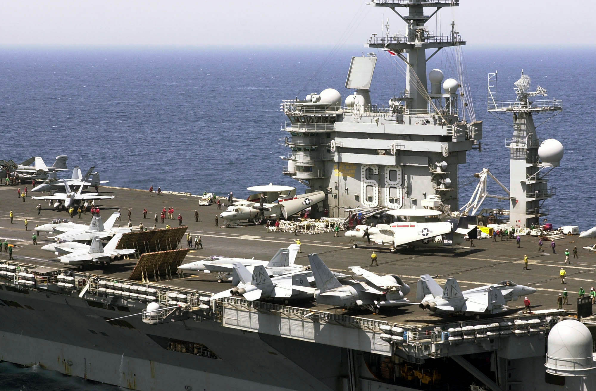 The Arabian Gulf (Apr. 24, 2003) -- USS Nimitz (CVN 68) transits the Arabian Gulf as it prepares for Flight Quarters. Nimitz Carrier Strike Group and Carrier Air Wing Eleven (CVW-11) are currently deployed in support of Operation Iraqi Freedom. Operation Iraqi Freedom is the multi-national coalition effort to liberate the Iraqi people, eliminate Iraqi’s weapons of mass destruction, and end the regime of Saddam Hussein. U.S. Navy photo by Photographer’s Mate 3rd Class Elizabeth Thompson. (RELEASED)